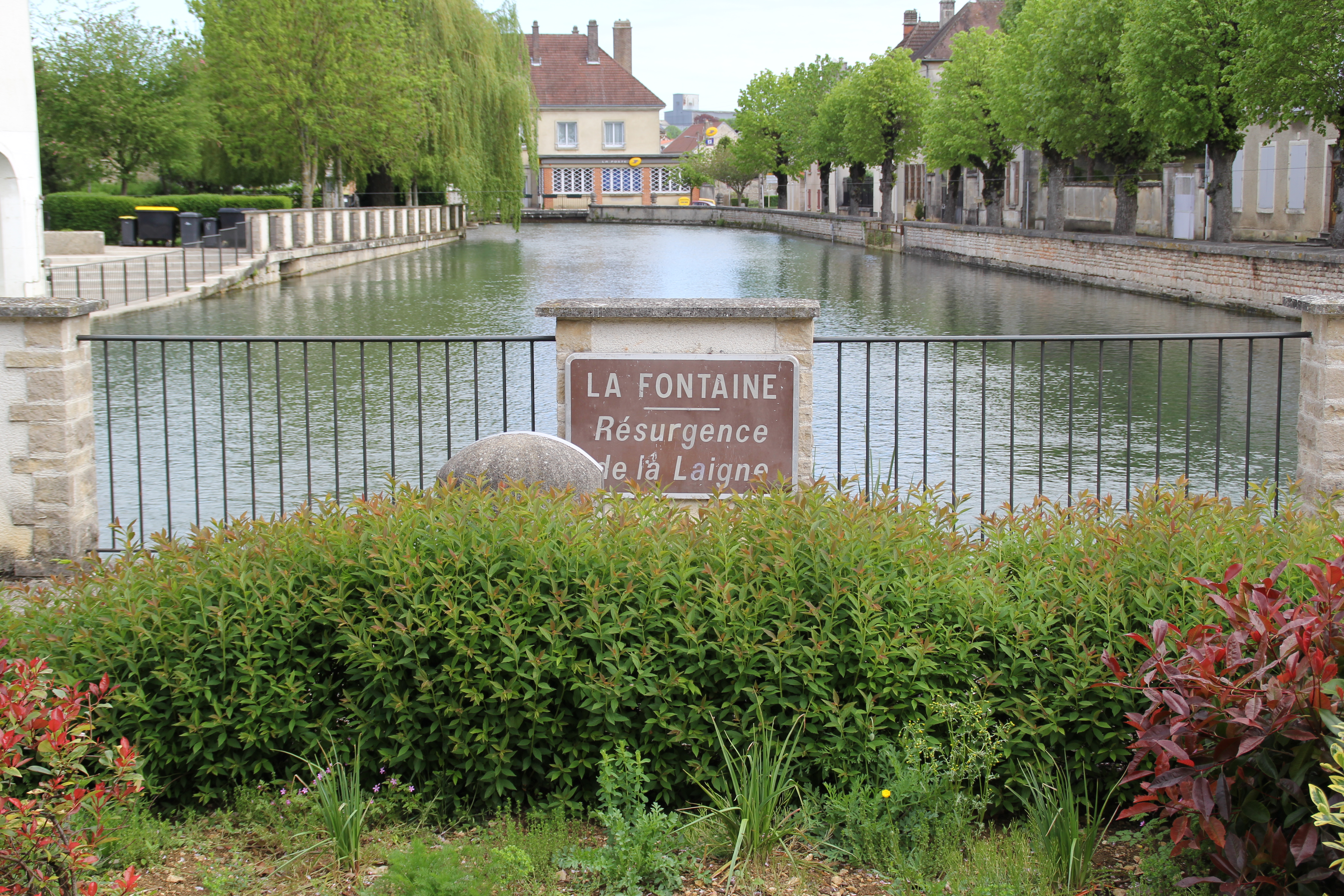 Résurgence de la Laigne in Laignes, France